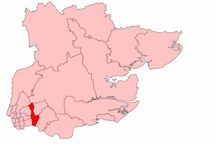 A map of Dagenham constituency within Essex, as it existed from 1945 to 1950.